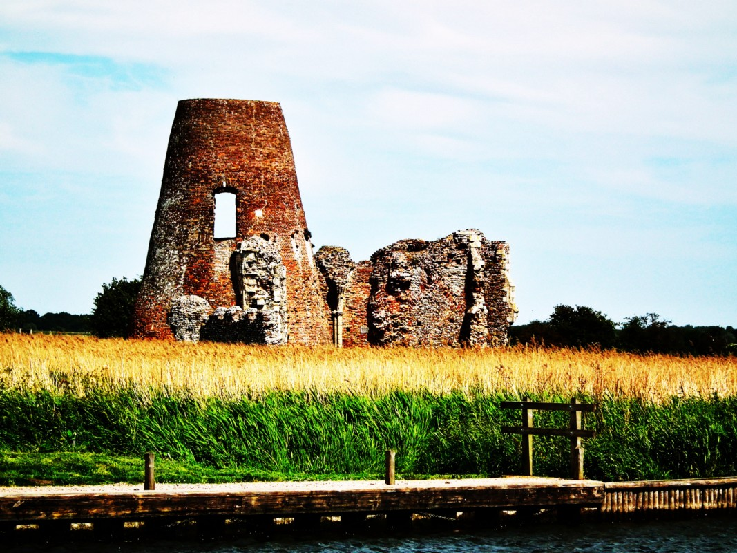 Ruins of St Benet's Abbey on the River Bure, Norfolk